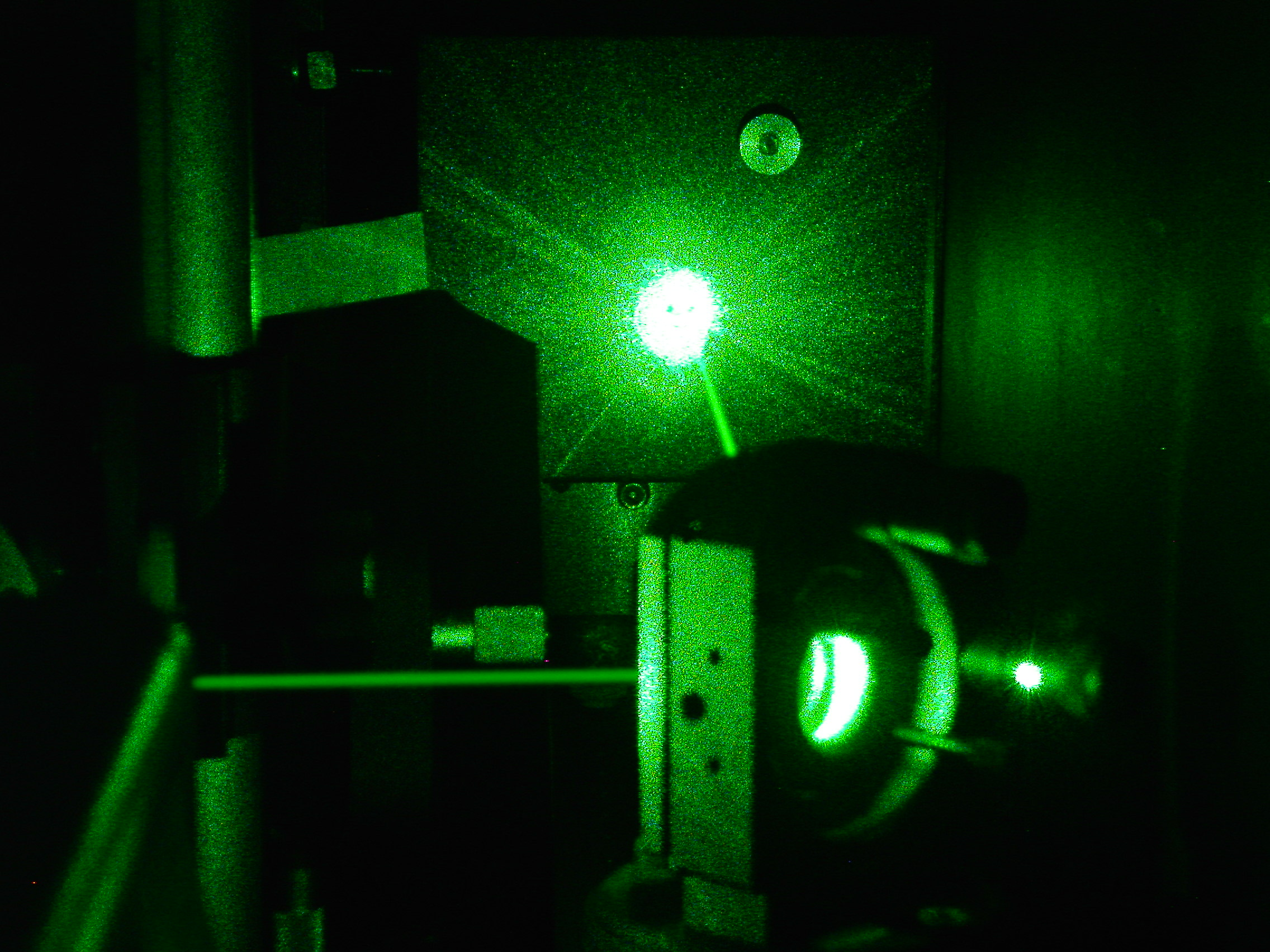 Powerful green laser of the University of Leiden